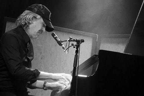 Singer-songwriter